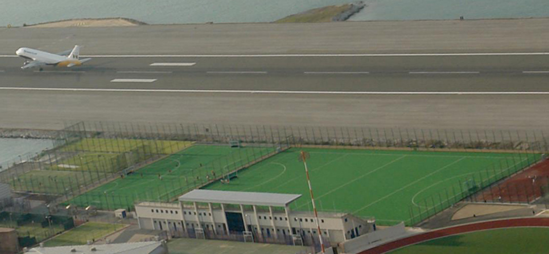 Hockey stadium of Gibraltar